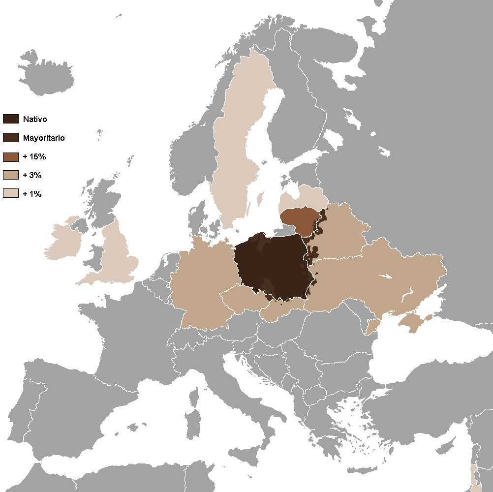 Knowledge of Polish in the European Union